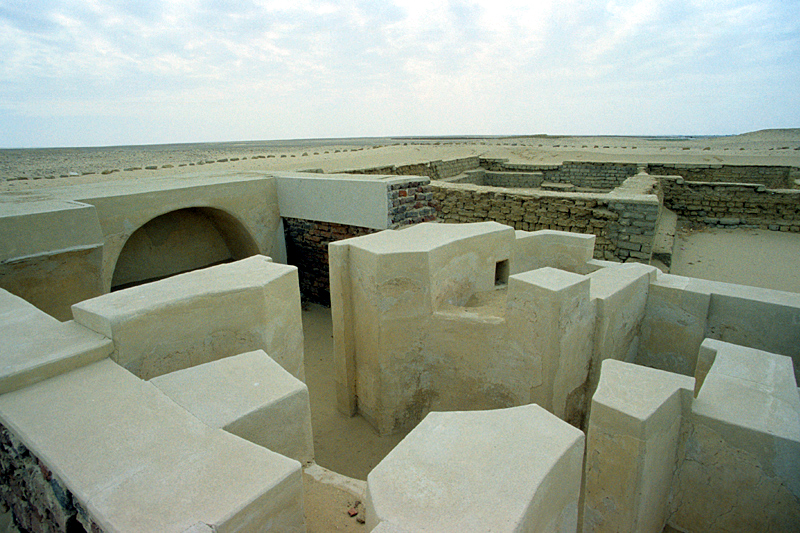 Building, Umm el-Burigat (Tebtunis), el-Fayyum, Egypt